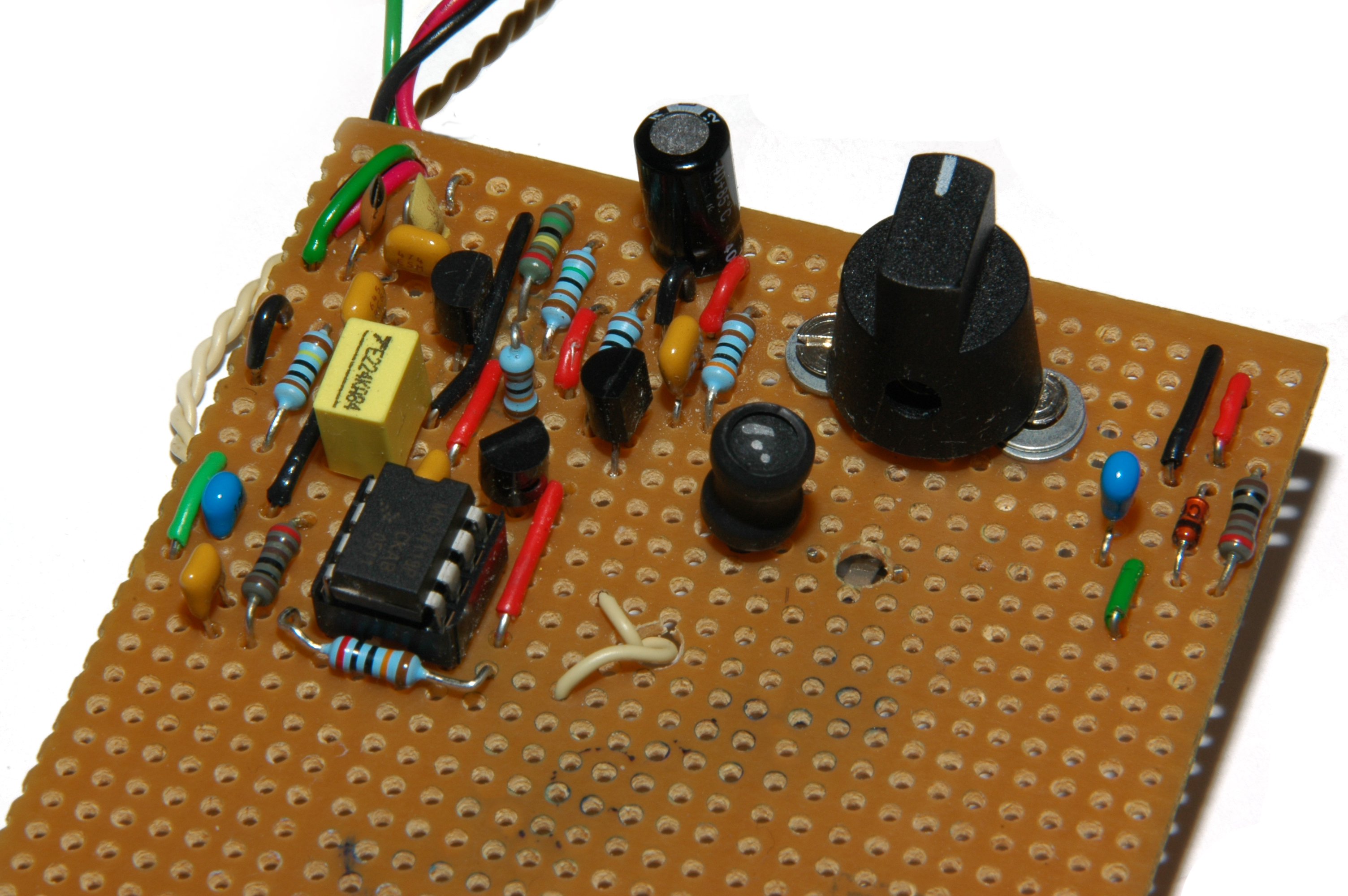 An AM receiver constructed on stripboard. The reverse can be found here. The flying leads are: Red : Positive supply Black : Ground/zero supply Green : Wire Aerial Beige (twisted): Earphone The IC is an MC34119 Op-amp, and the device with a knob is a variable capacitor.